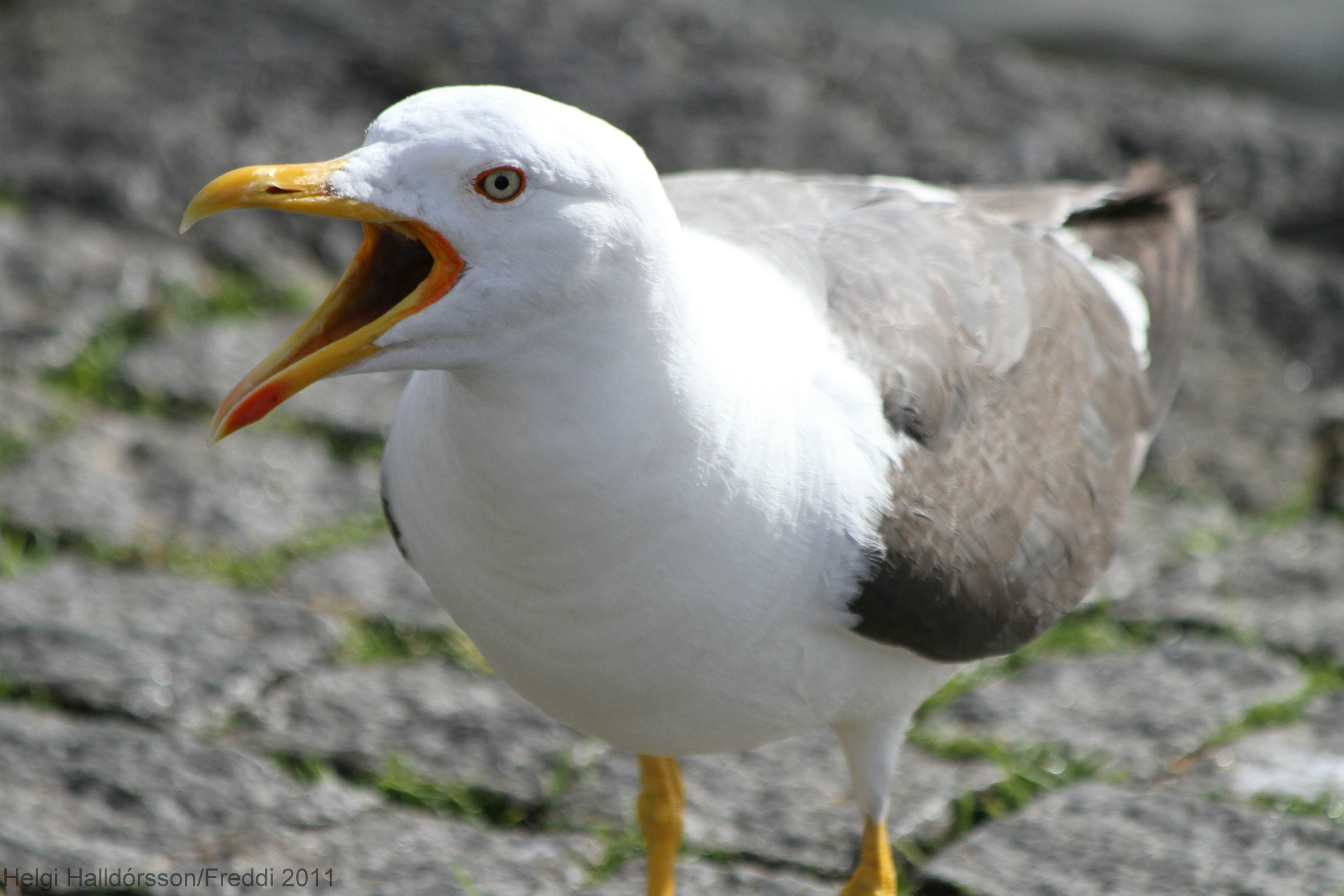 I really cannot figure out that why the seagull was angry about.